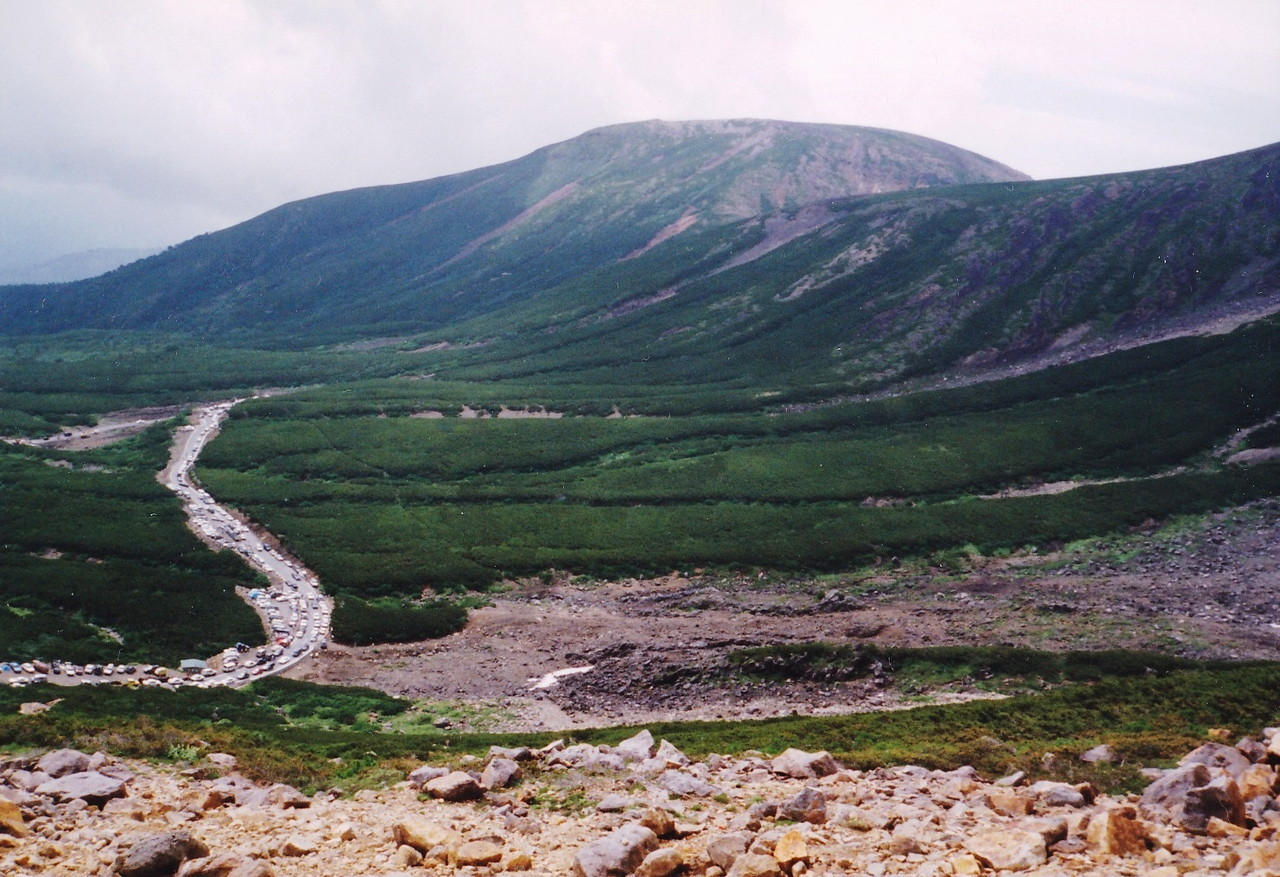 Norikura Echoline